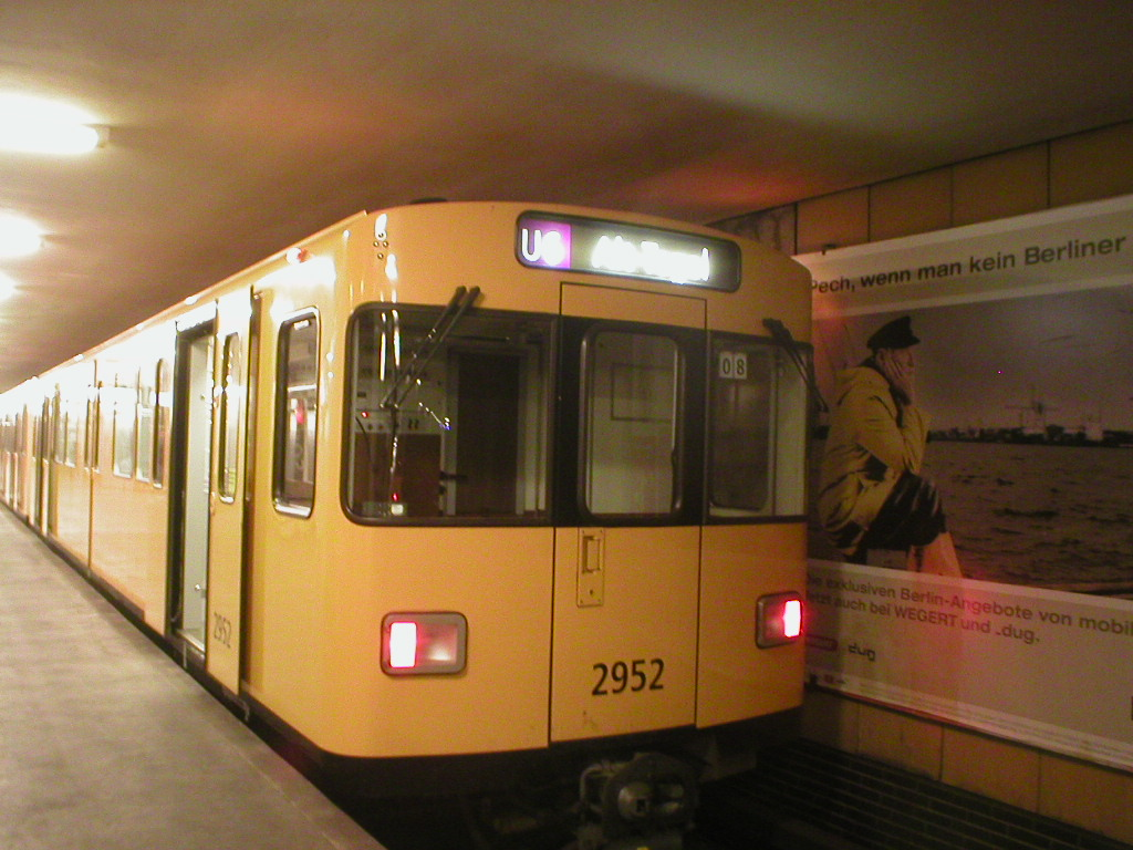 The Berlin U-Bahn train type F92